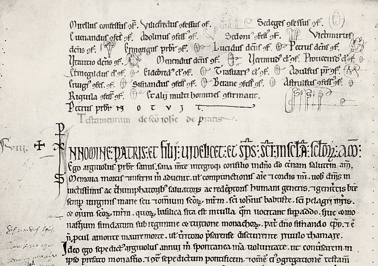 Image from one of the cartularies of the monastery of Sobrado (Galicia), which contains copies of documents dated in the 8th-13th centuries.